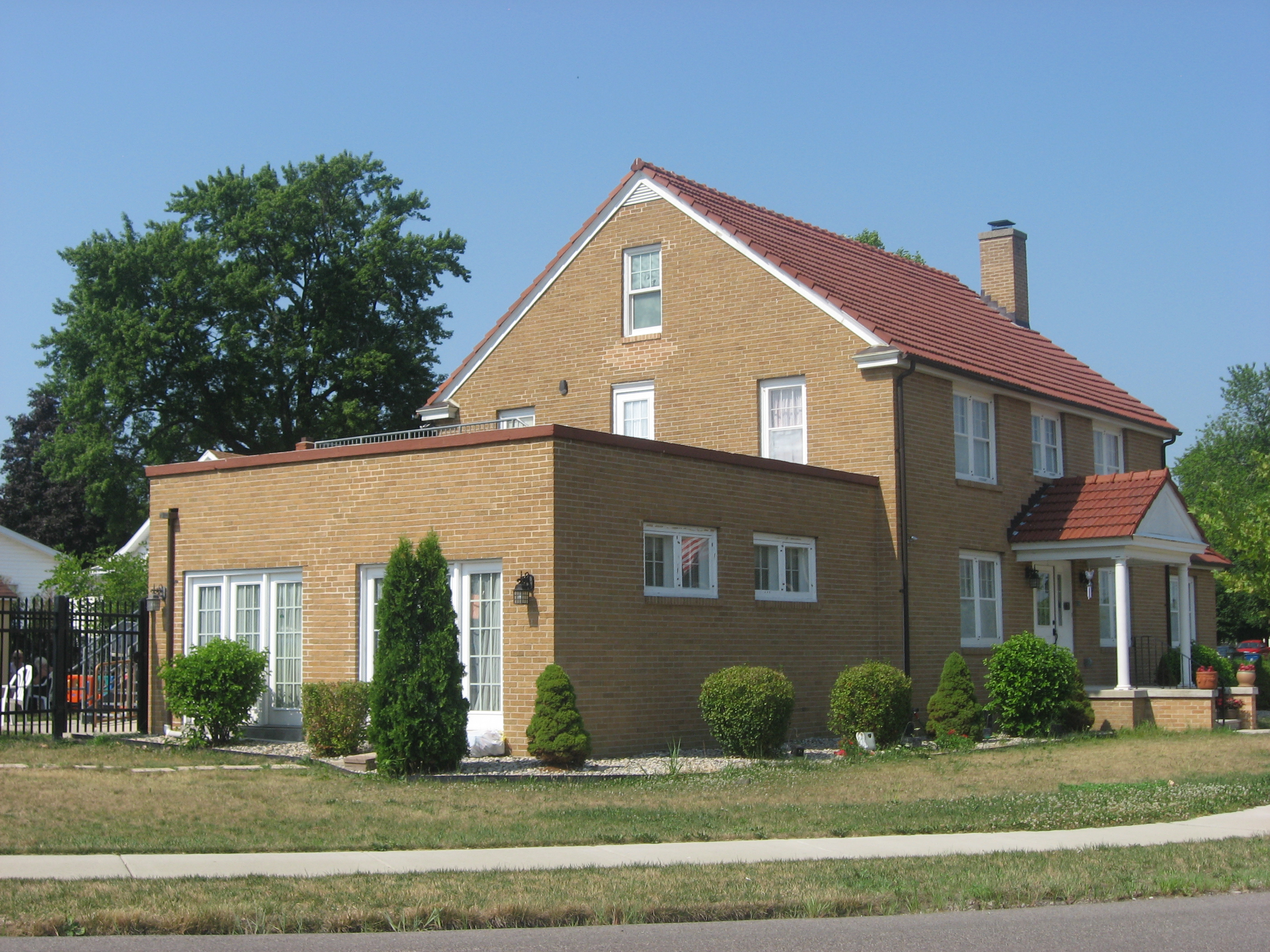 Front and eastern end of the Heminger Travel Lodge, located at 800 Lincolnway East (the old Lincoln Highway) in Plymouth, Indiana, United States. Built in 1937, it is listed on the National Register of Historic Places.